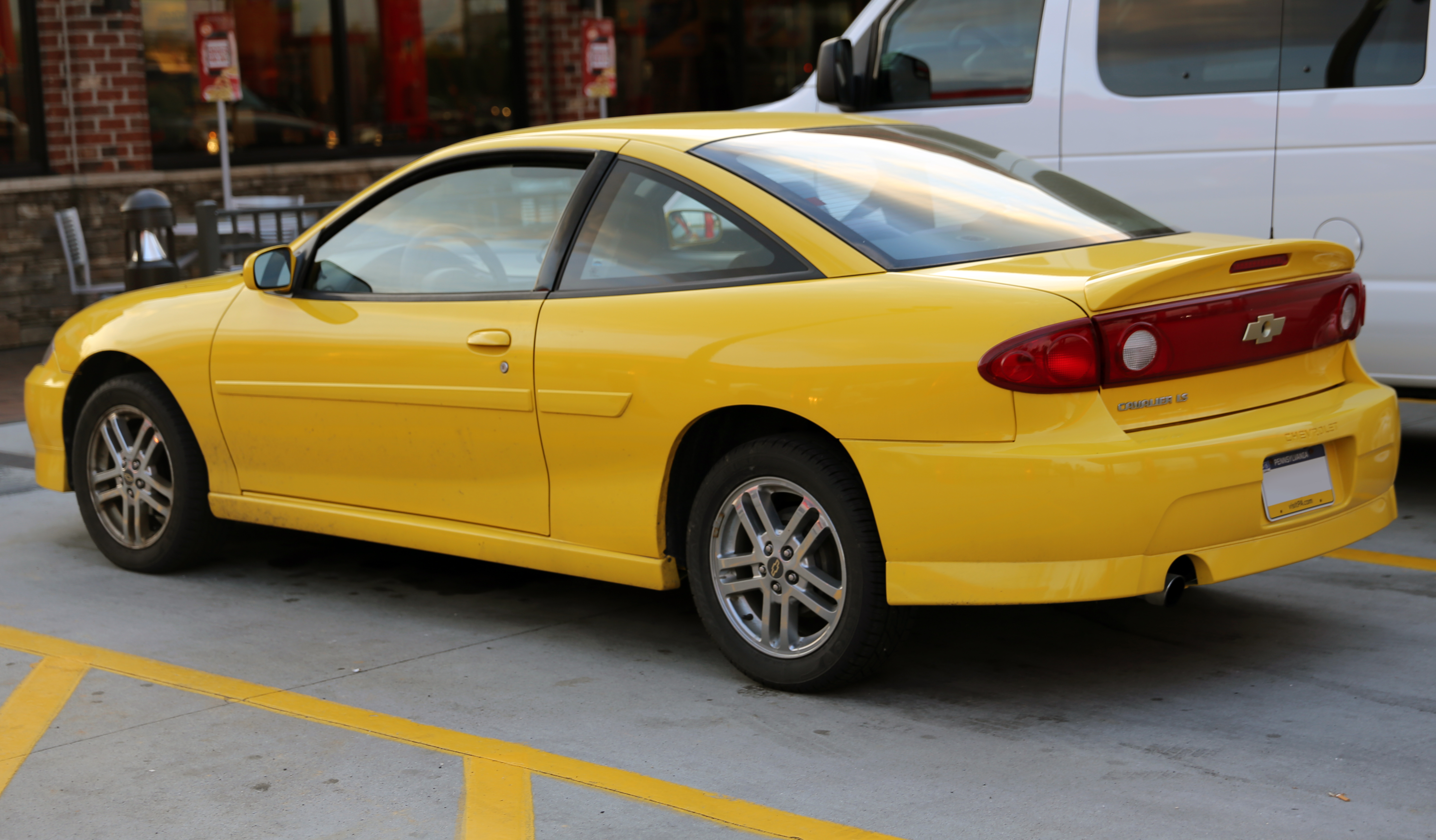 A 2004 Chevrolet Cavalier LS Sport 2-door. Yuk.